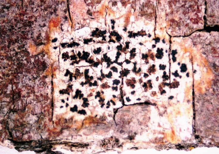 Arthonia radiata (Pers.) Ach., 1808 (photograph of a herbarium specimen taken through a dissecting microscope (x9) showing star-like clusters of ascomata) Growing on the bark of Red Oak in an open woods, 2.2 miles W of U. M. Biological Station on C-64, Cheboygan County, Michigan, USA; collected and identified by Richard E. Riefner (No. 81-209, 22 Jun 1981); specimen is now in the Lichen Herbarium of the New York Botanical Garden.